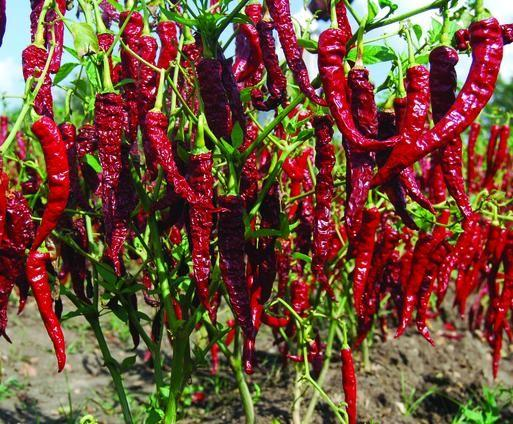 Plantatie de chili